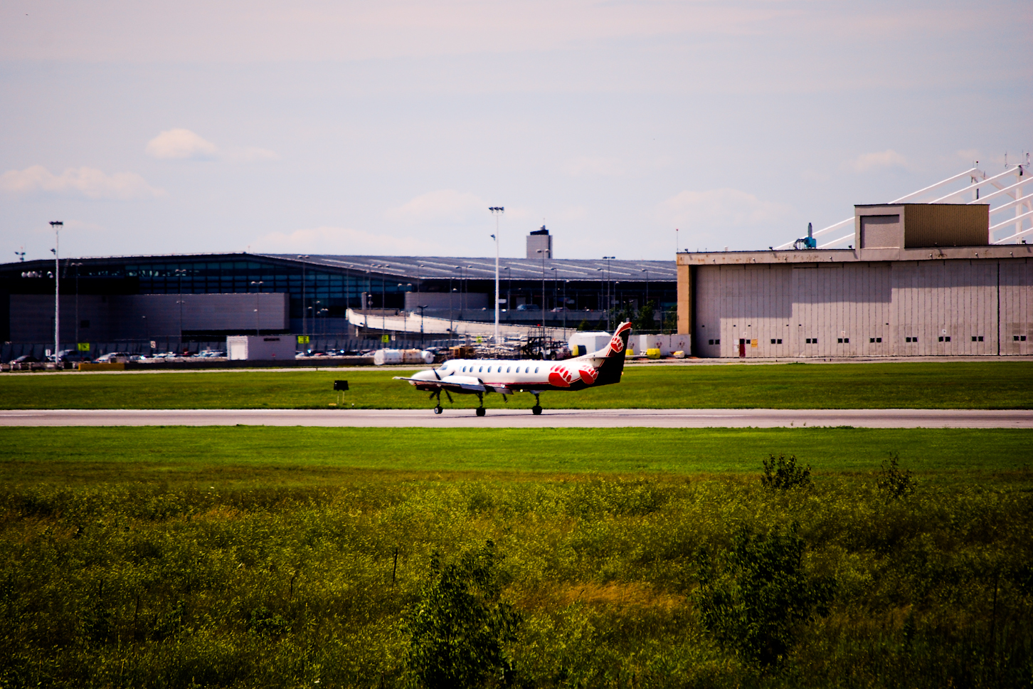 Bearskin Airlines Fairchild Swearingen Metroliner, tail number C-GAFO